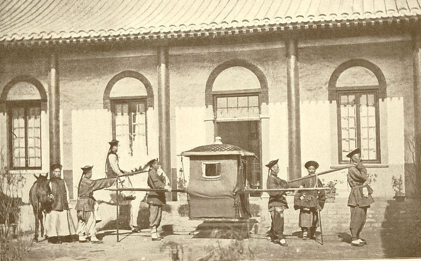 Sedan chair in old Tianjin (late 19th century)